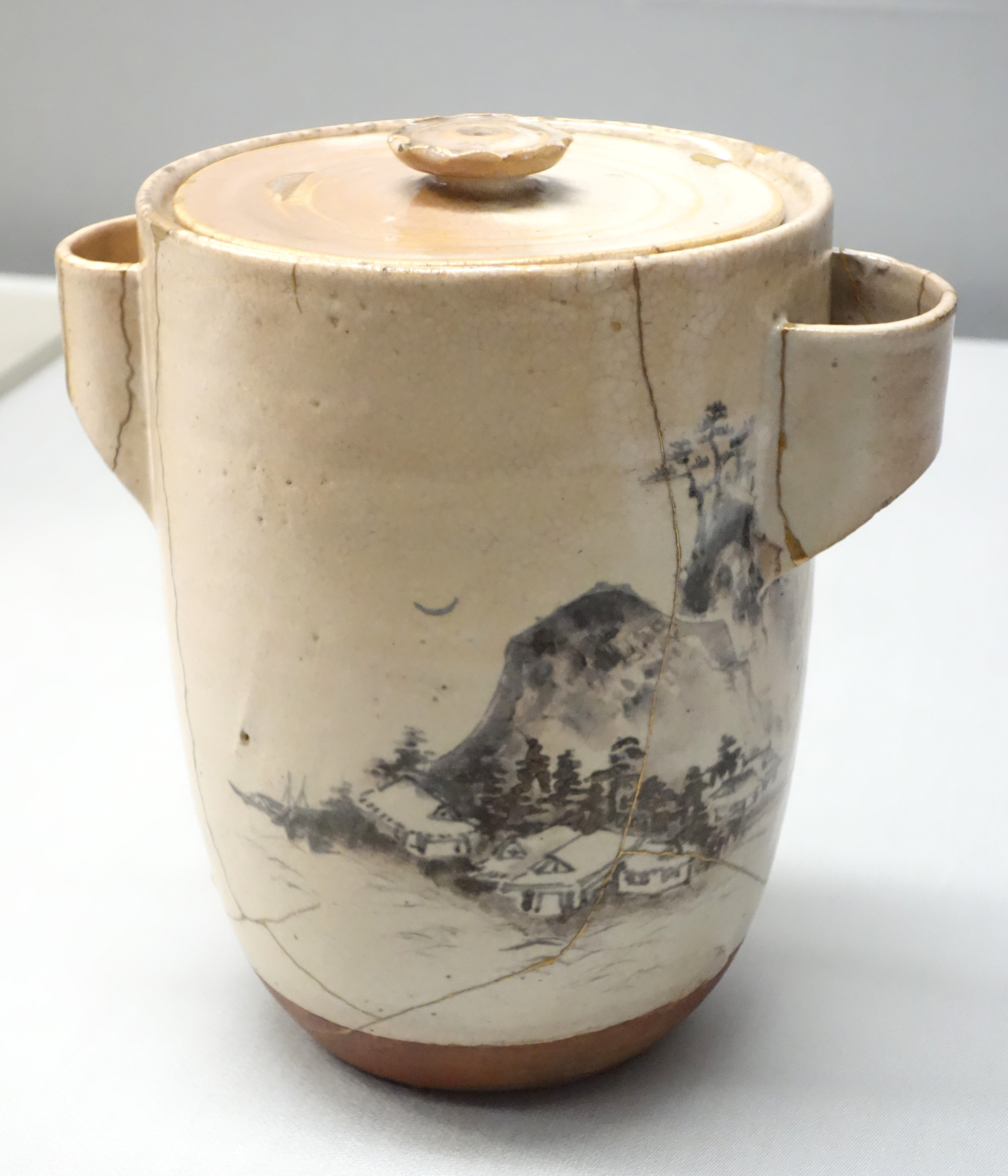 Exhibit in the Tokyo National Museum, Tokyo, Japan. This artwork is old enough so that it is in the public domain.